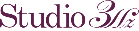 The logo of 3Hz inc. used in credits